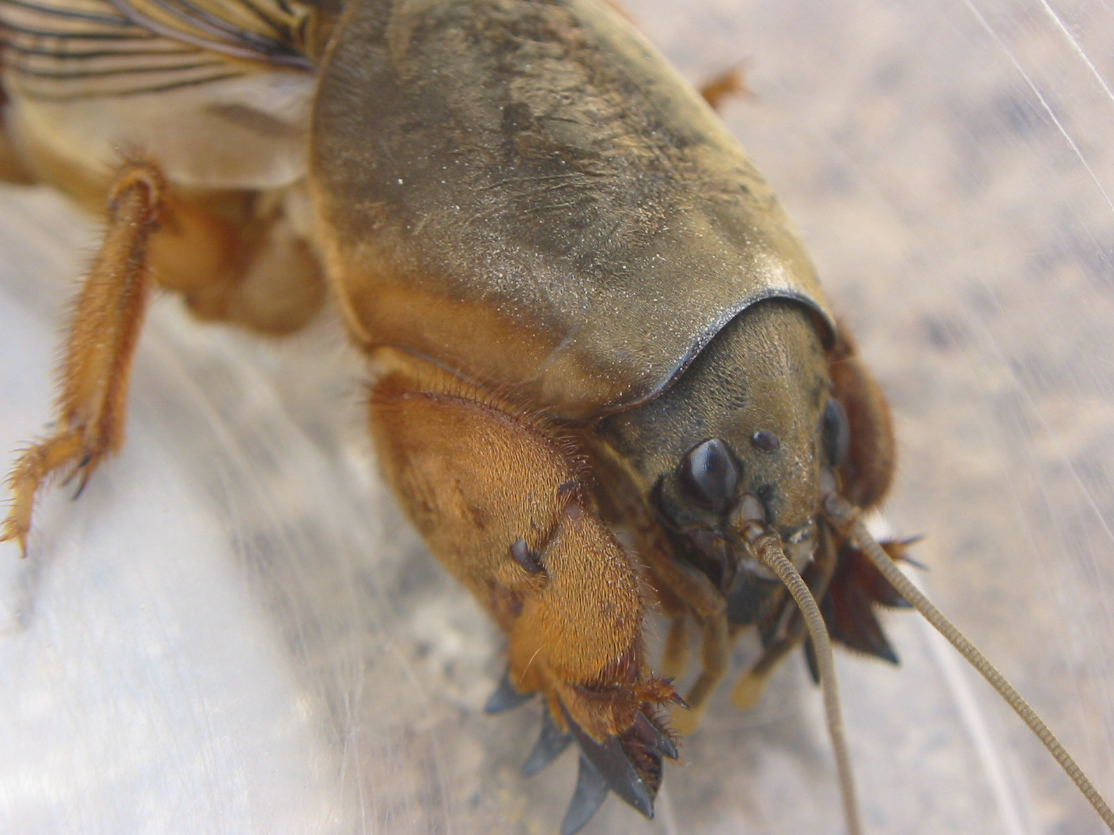 head of mole cricket